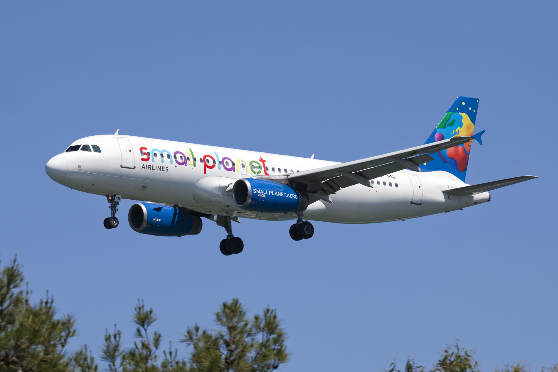 Corfu-Greece